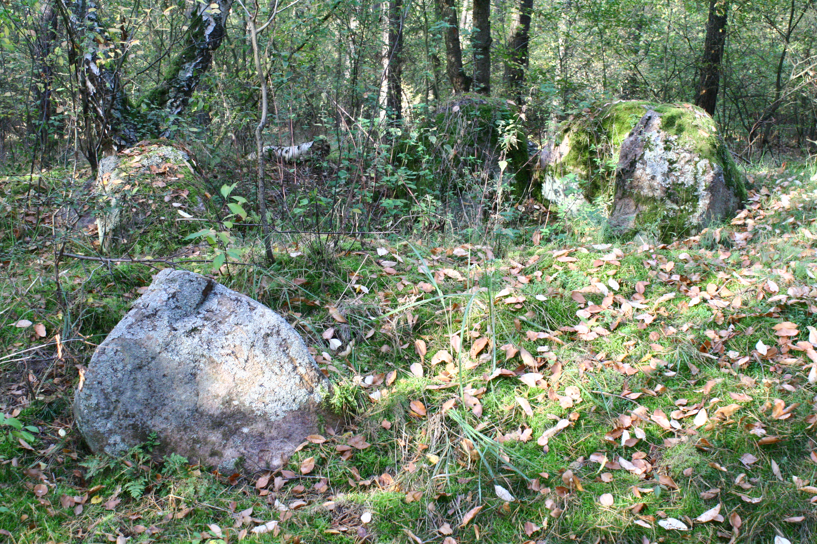 Megalithic tomb Haldensleben II 20